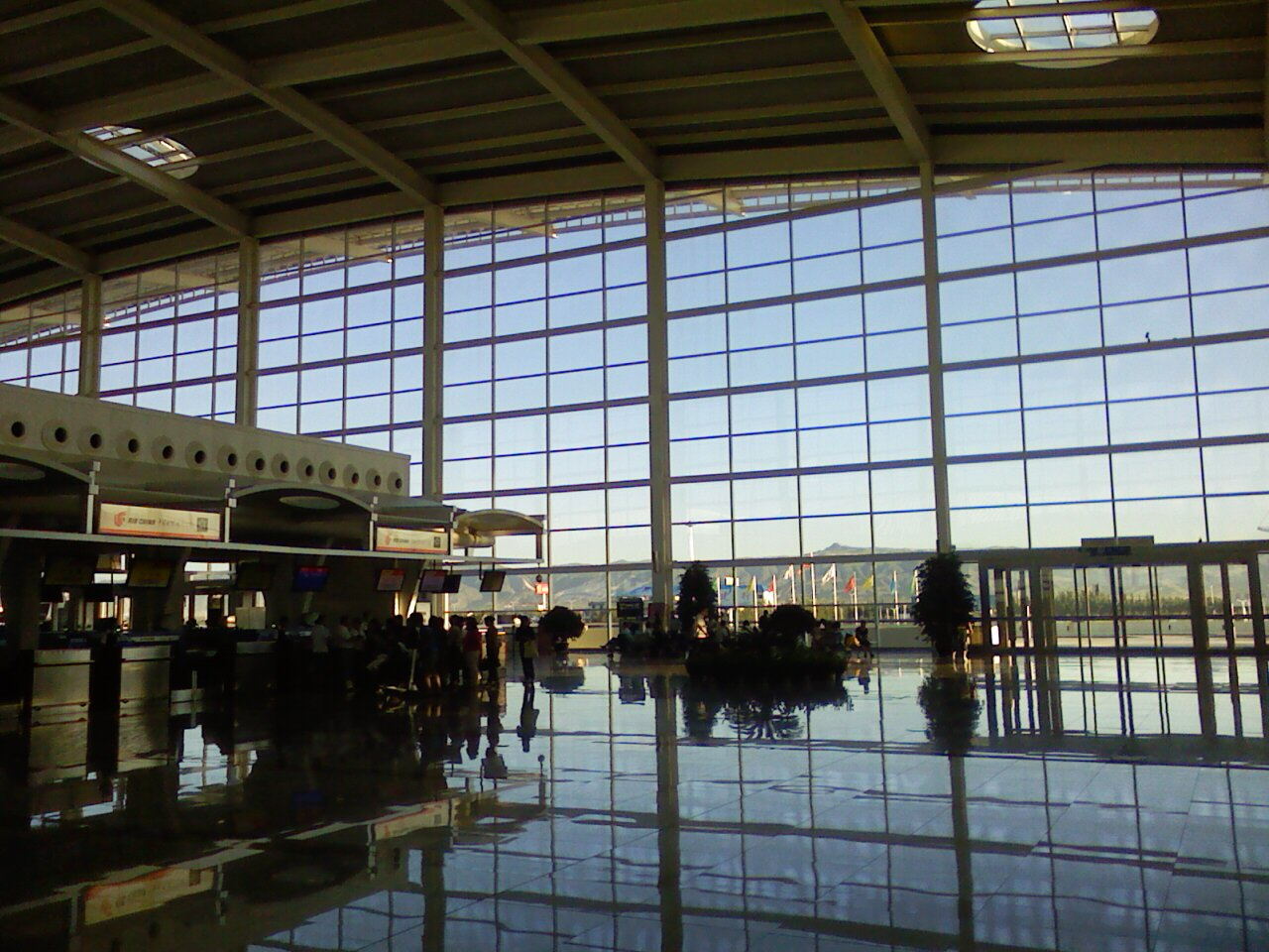 July 2008 picture of the interior of Hohhot Baita International Airport